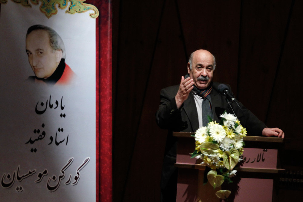 Commemoration Late Gurgen Movsessian (25 November 2014)